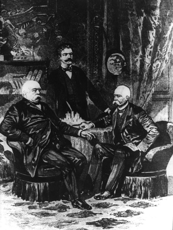 Meeting between the Chancellor Bismarck (left) and the Italian Prime Minister Crispi (right) in Friedrichsruh in 1887.